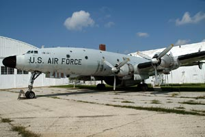 Lockheed Constellation on static display outside of the Combat Air Museum in Topeka, Kansas.